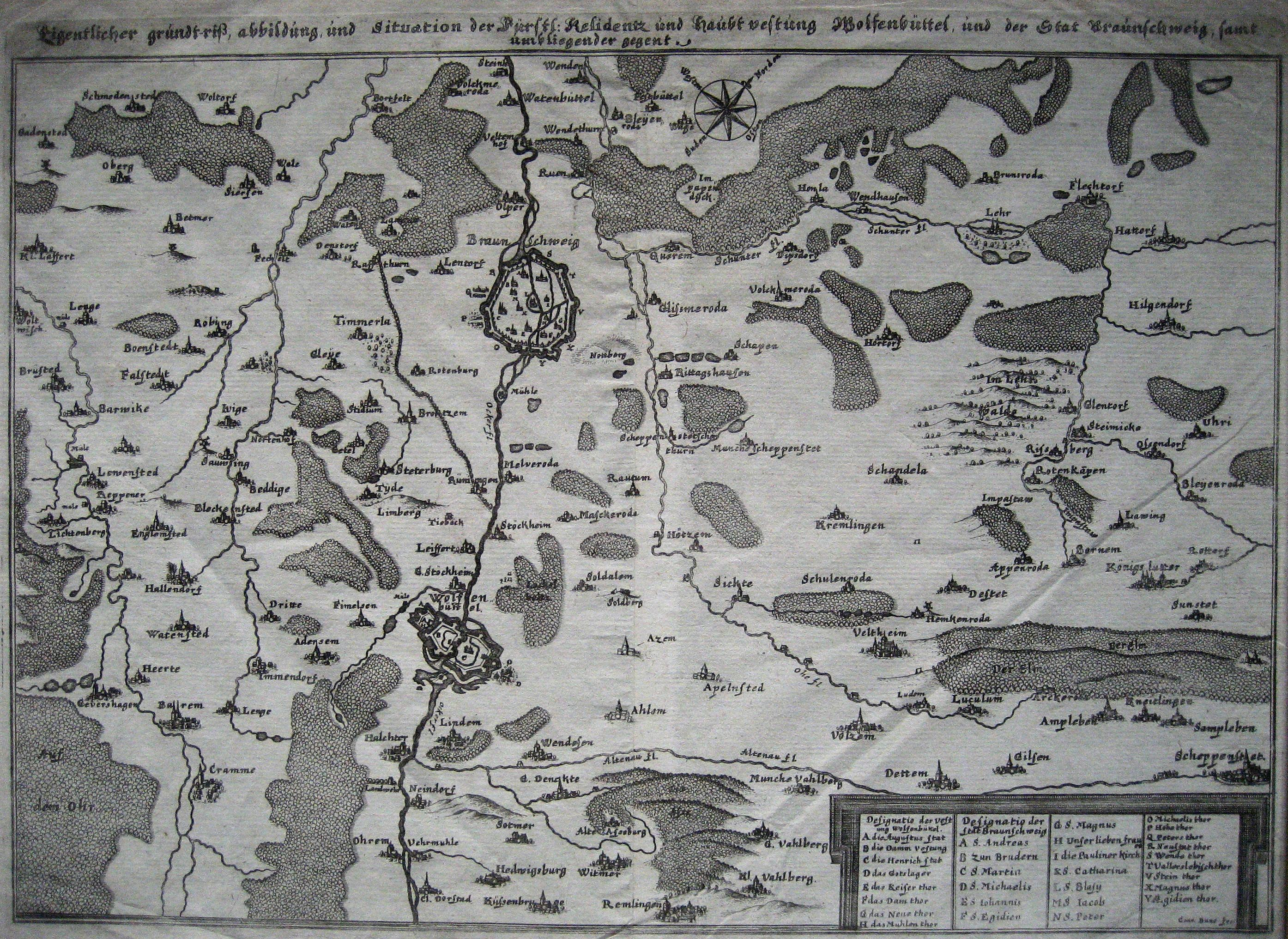 Historic map of Braunschweig, Wolfenbüttel and surrounding villages. The title says: Actual site-plan, illustration and situation of the fürst-residence and main fortification Wolfenbüttel, and the city of Braunschweig, together with the surrounding region